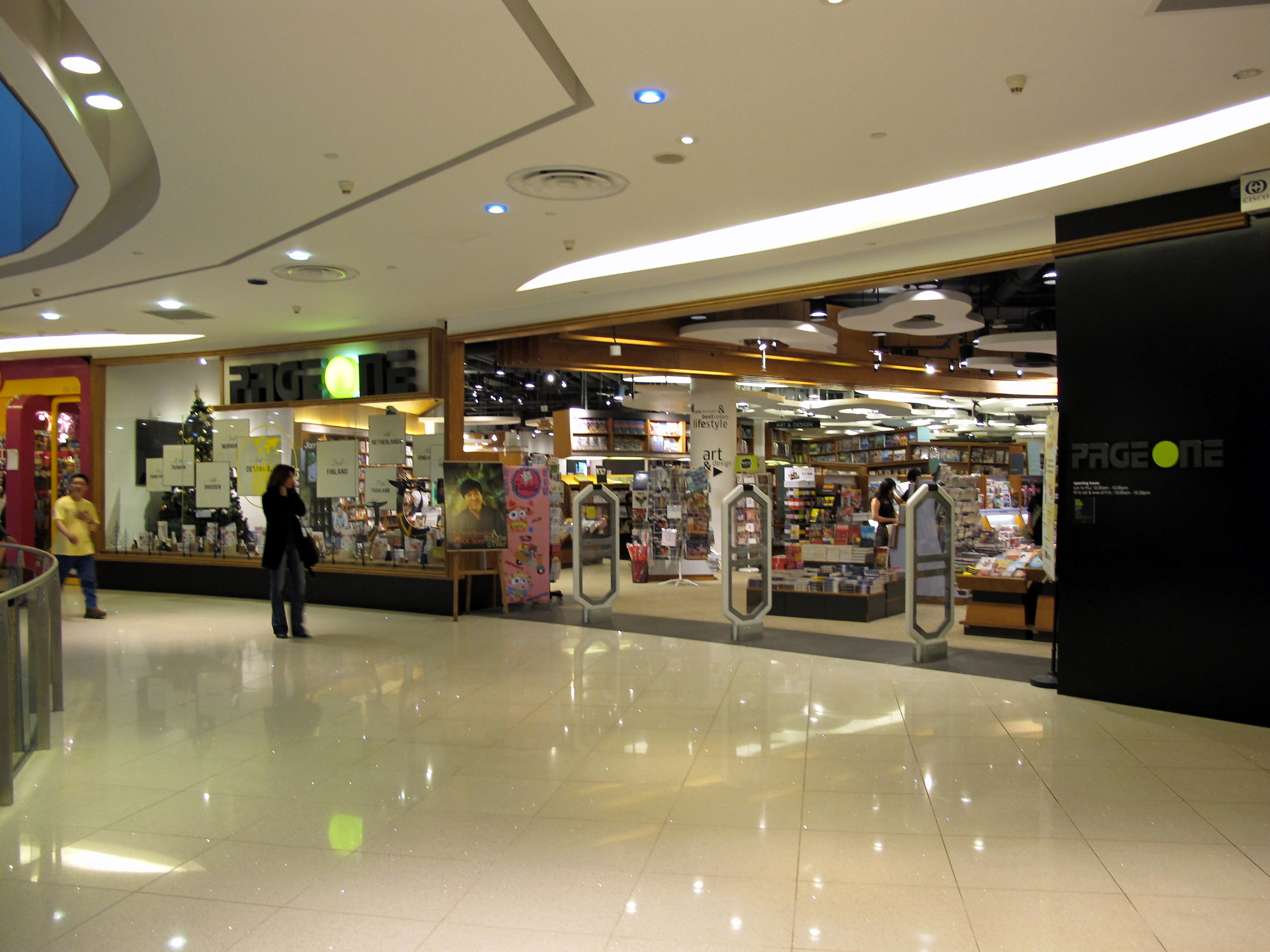 PageOne in Vivo City, Singapore